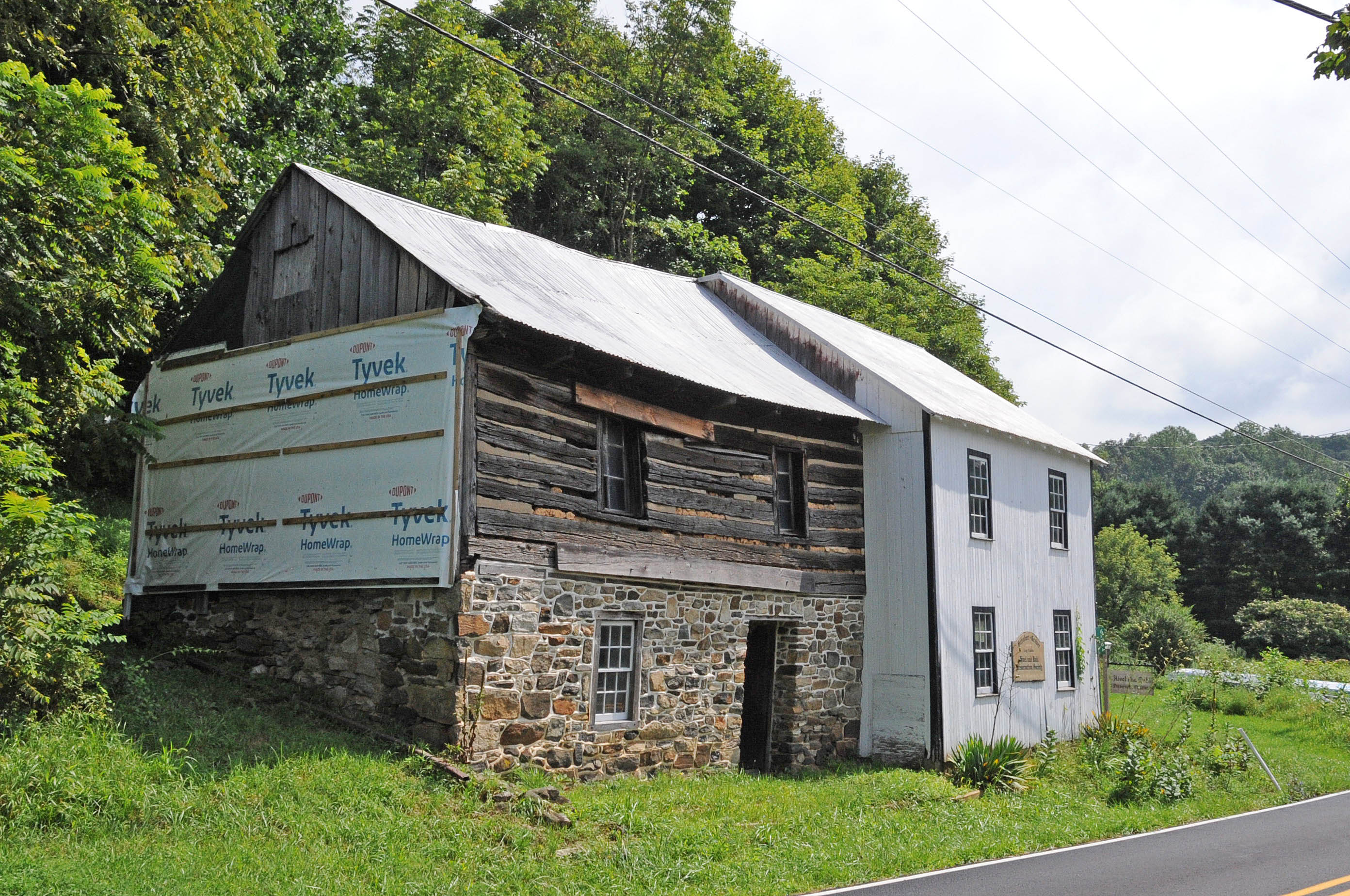 THOUGHT TO BE THE OLDEST BUILDING IN UPPER MILFORD TOWNSHIP, POSSIBLY EVEN LEHIGH COUNTY. IT WAS BUILT CIRCA 1735. IT IS THOUGHT THAT THE BUILDING MAY HAVE BEEN USED AS A SCHUBERT BUSINESS, WHICH INCLUDED BARREL-MAKING AND, LATER, A WOOL BUSINESS.